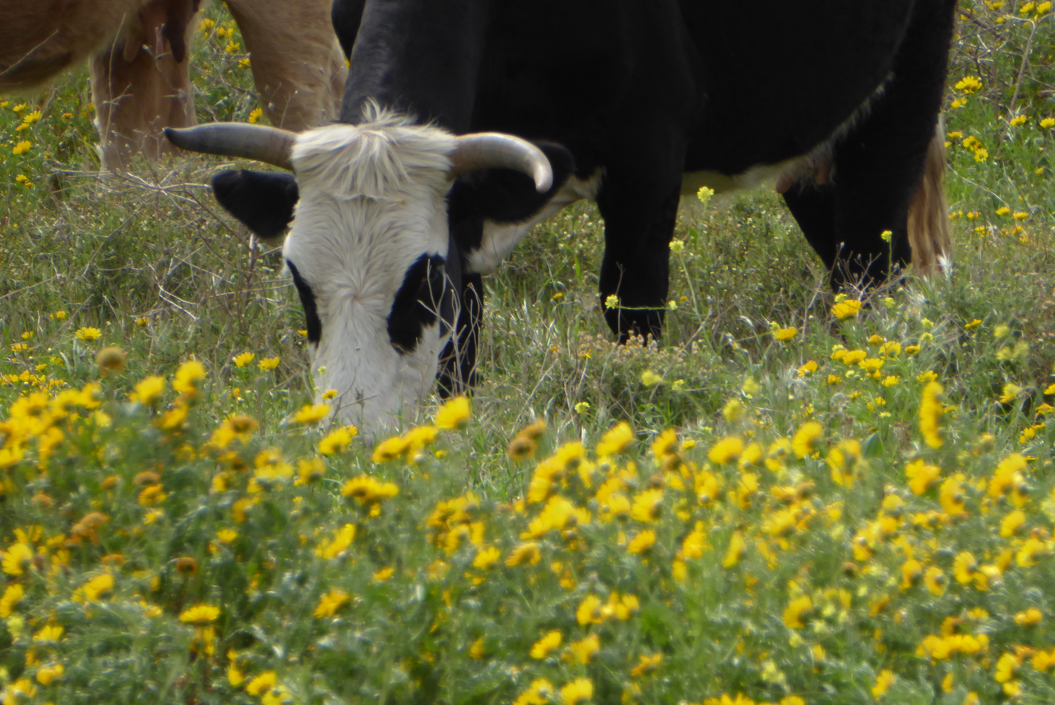 Animals of Israel